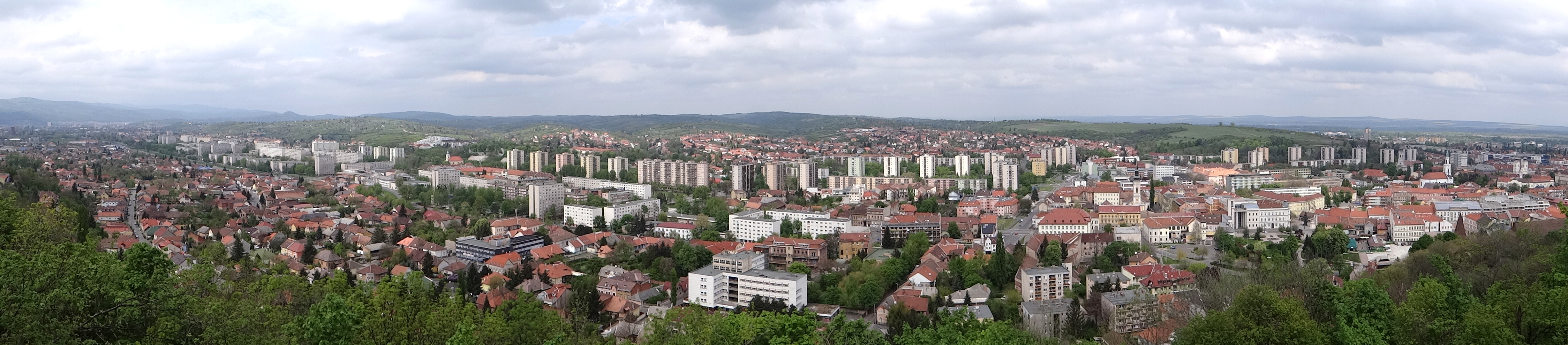 Panorama of Miskolc from Avas TV Tower, Hungary